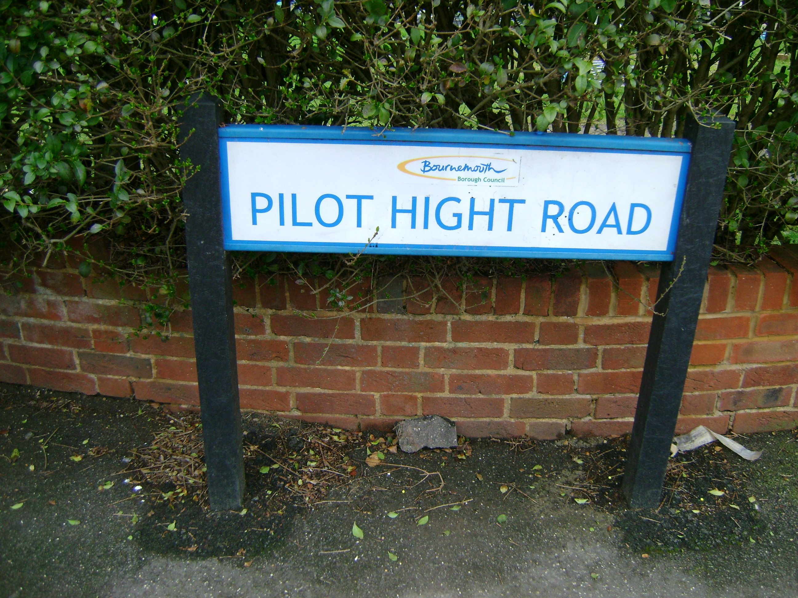 Pilot Hight Road sign, West Howe, Bounremouth